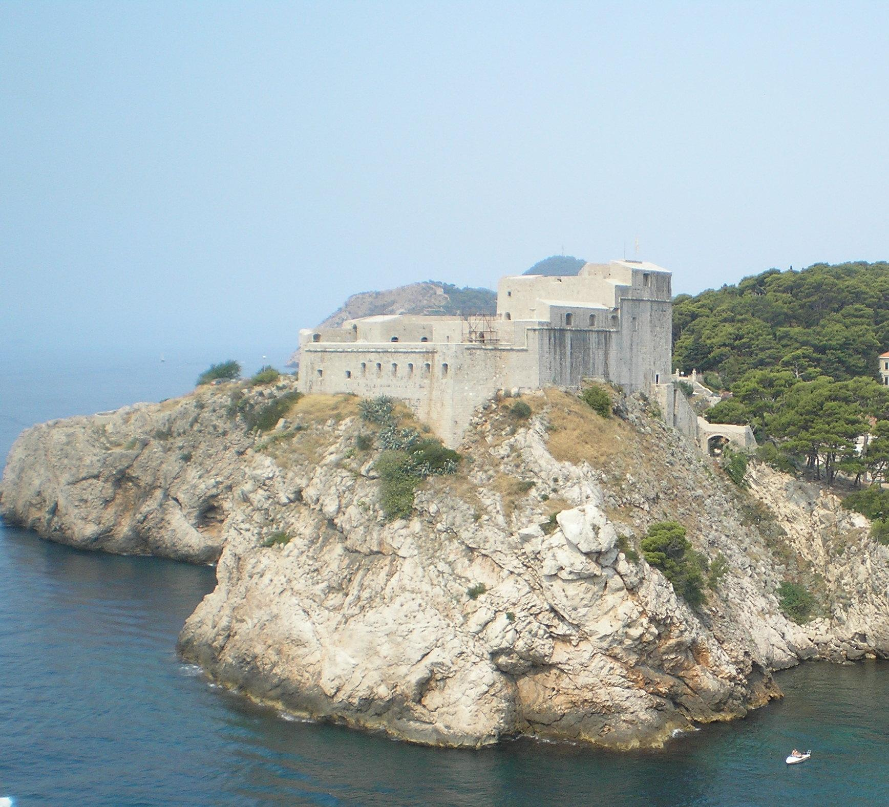 Lovrijenac, a fortress in Dubrovnik, Croatia.